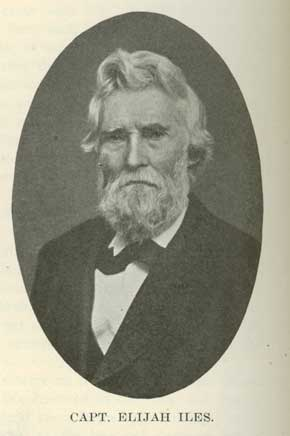 Captain Elijah Iles, in whose company Abraham Lincoln was a private during the 1832 Black Hawk War. From photograph made by Anderson, of Springfield.